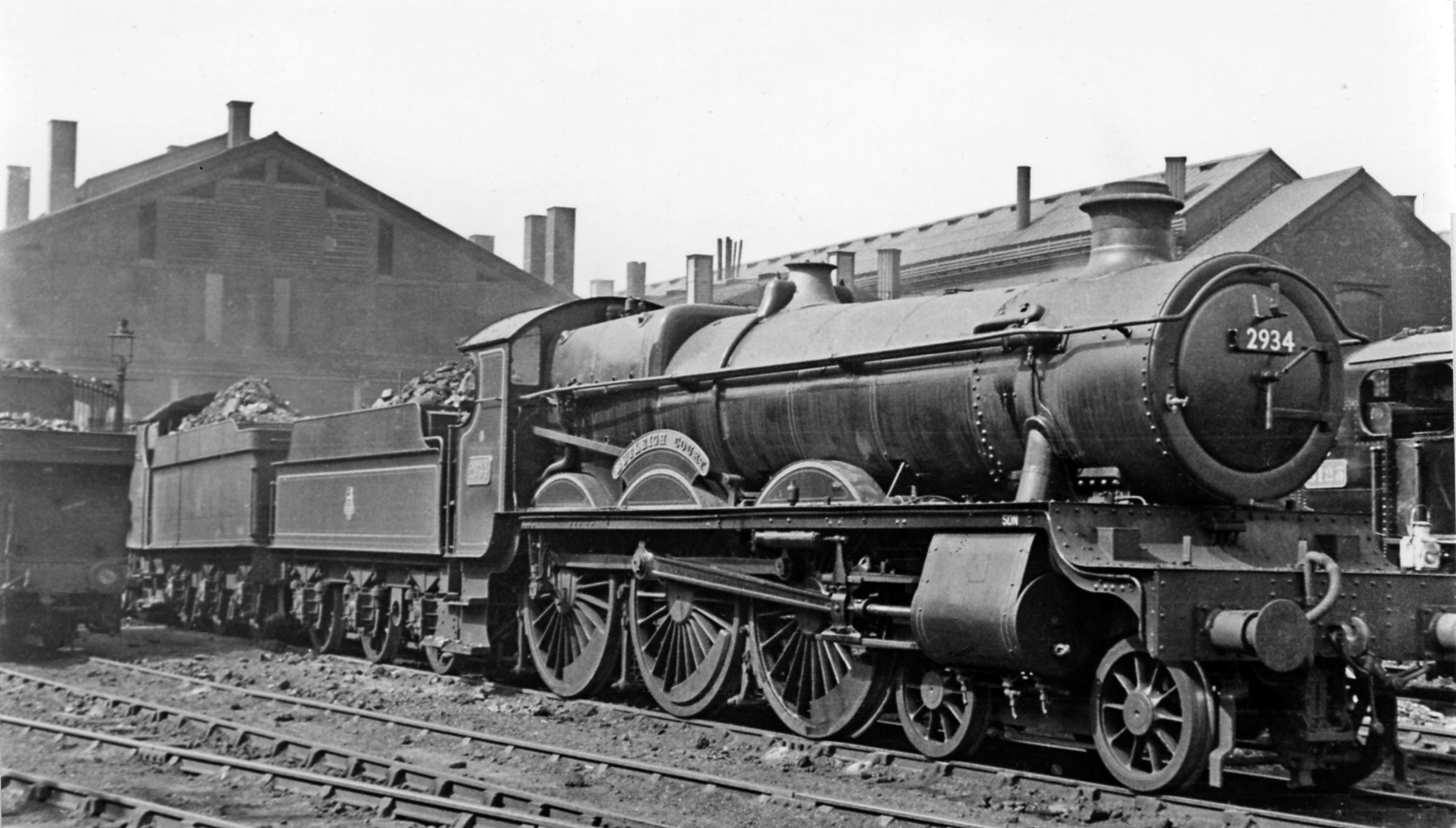 A Churchward 'Saint' 4-6-0 on Shed ex-Works at Swindon. No. 2934 'Butleigh Court' was one of the later batch of 'Saints', introduced in 1911; it was withdrawn in 6/52, so this was probably its last visit to the Works - after a life of over 40 years, much of it on heavy passenger work. (See SU1485 : Swindon Locomotive Depot for a general scene that day).